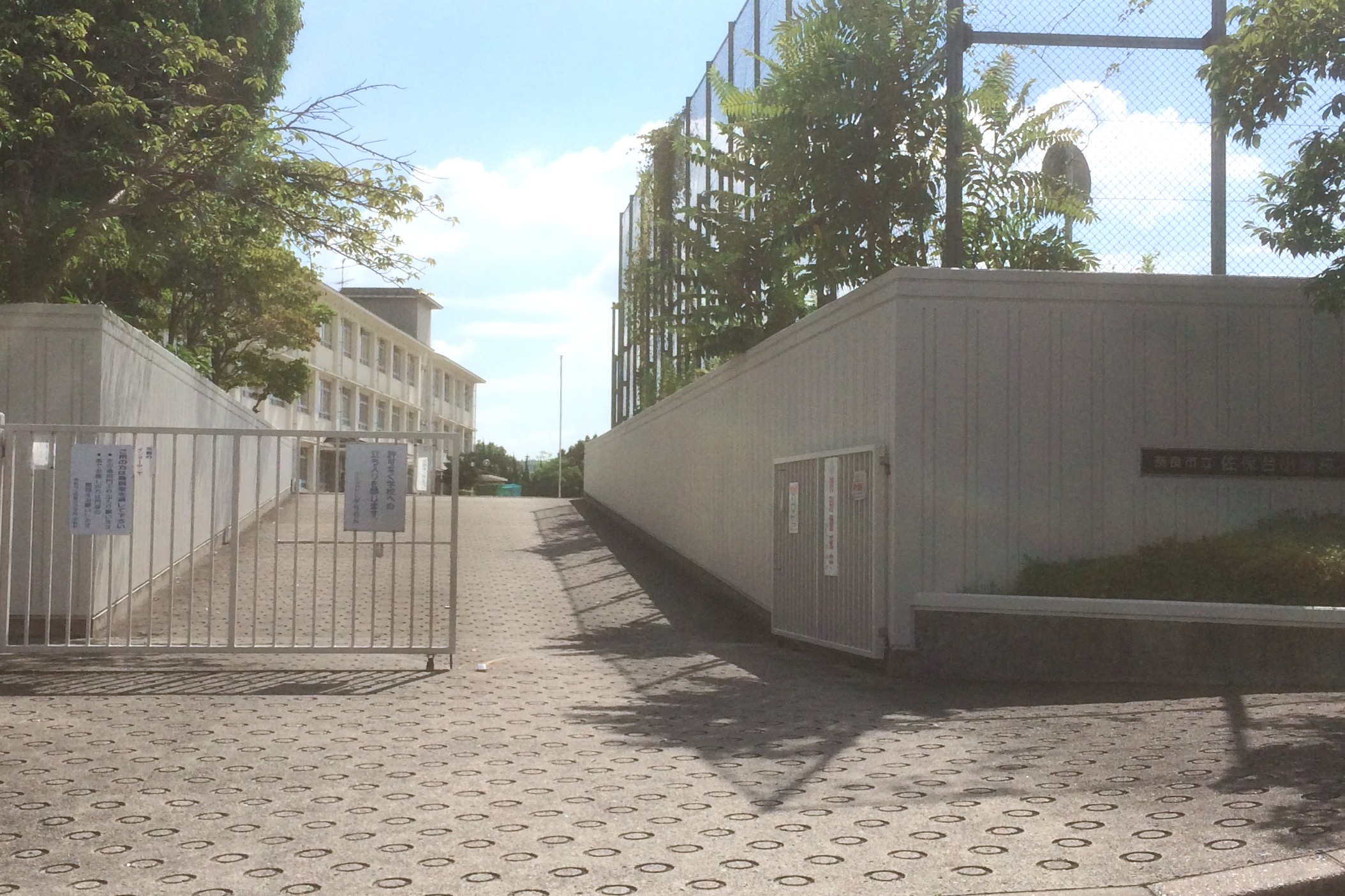 奈良市立佐保台小学校